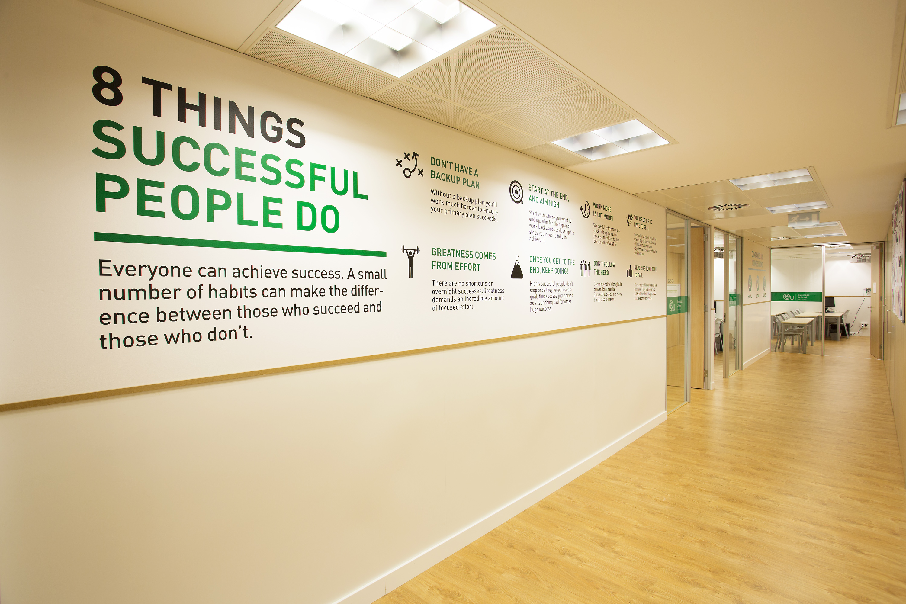 Picture of EU Business School Barcelona's corridor